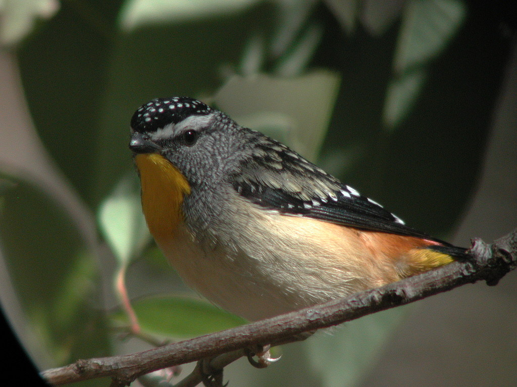 Spotted Pardalote (Pardalotus punctatus) Samsonvale, SE Queensland, Australia